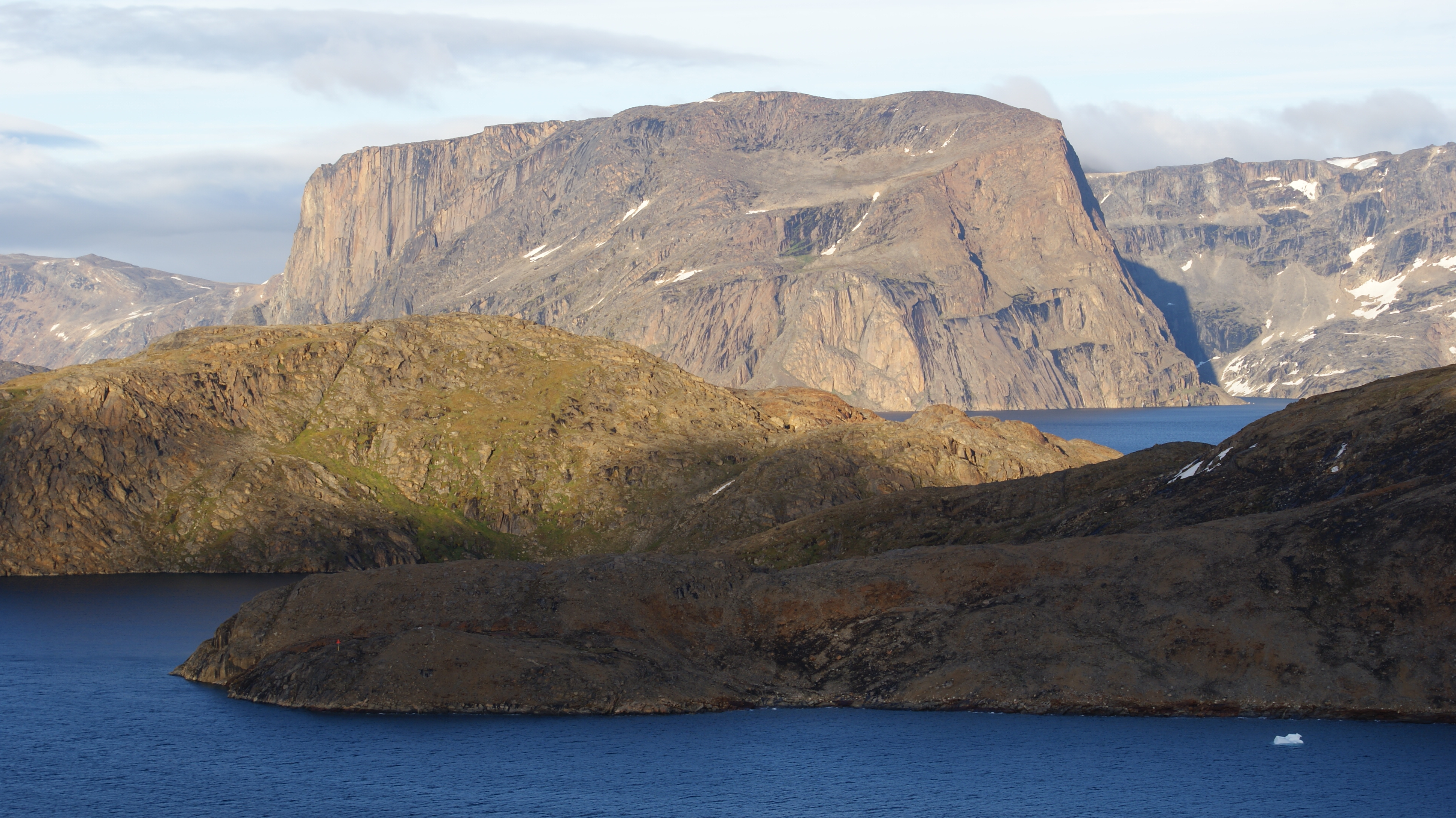 Umiassussuk Mountain on Qaarsorsuaq Island, Upernavik Archipelago, Greenland. Photographed in the evening from Upernavik Island.